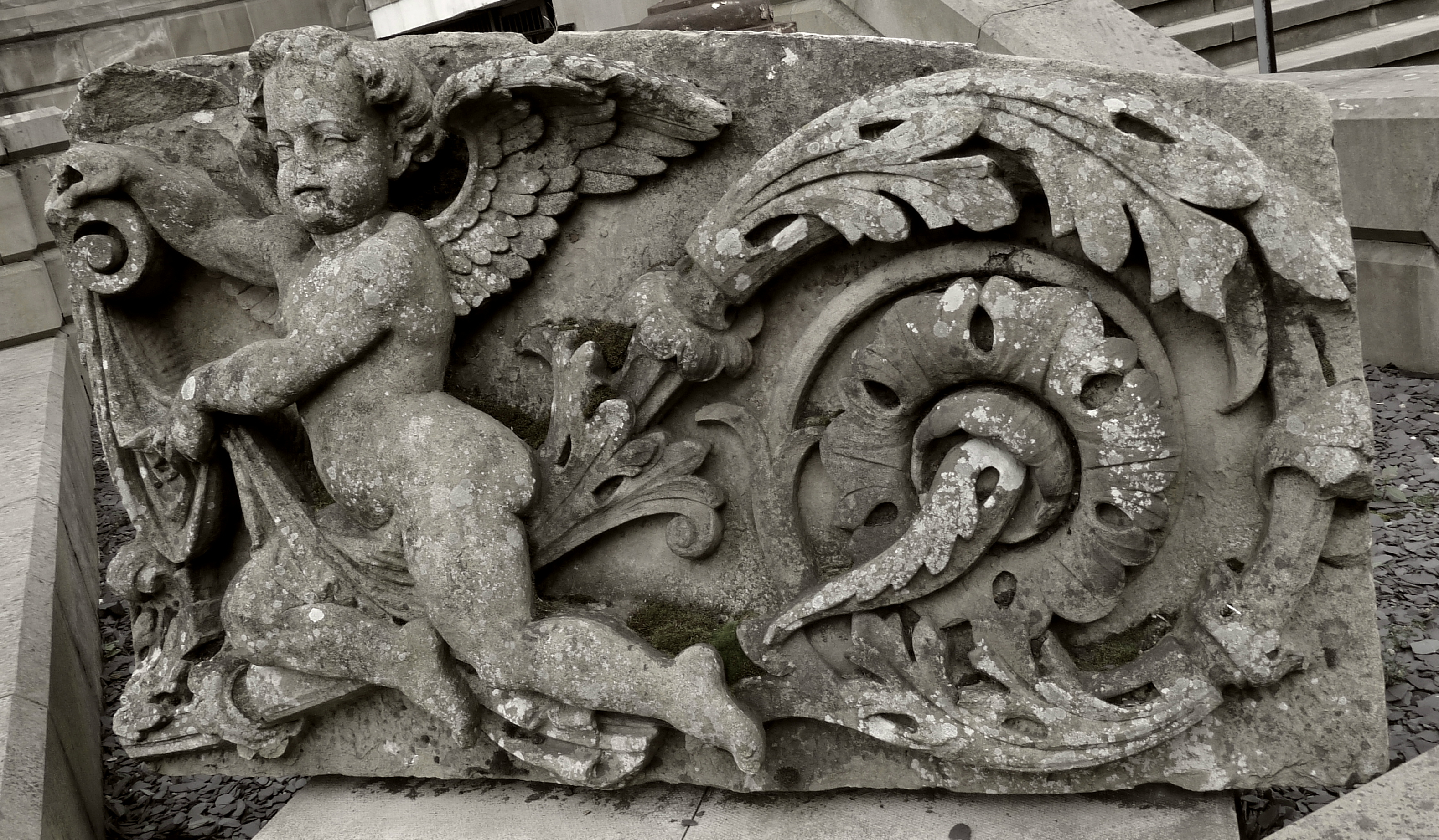 Carved work by Charles Mawer, salvaged from Kirkgate Market, Bradford in 1973 by Bradford City Council. The market was designed by Lockwood & Mawson, completed 1872, demolished 1973. In 2014 seven carved stones and an iron lamp base were rescued from storage by a local action group. They were placed on public display on the steps of Merchant's House, Peckover Street, Little Germany, Bradford, West Yorkshire. This was part of the tympanum carving by Mawer, once placed at roof level above the main entrance to the market. It depicts one of the cherubs supporting the Bradford coat of arms. The head is elongated, so as to appear correct when viewed from below.